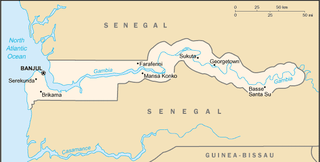 A map of The Gambia, showing major cities.